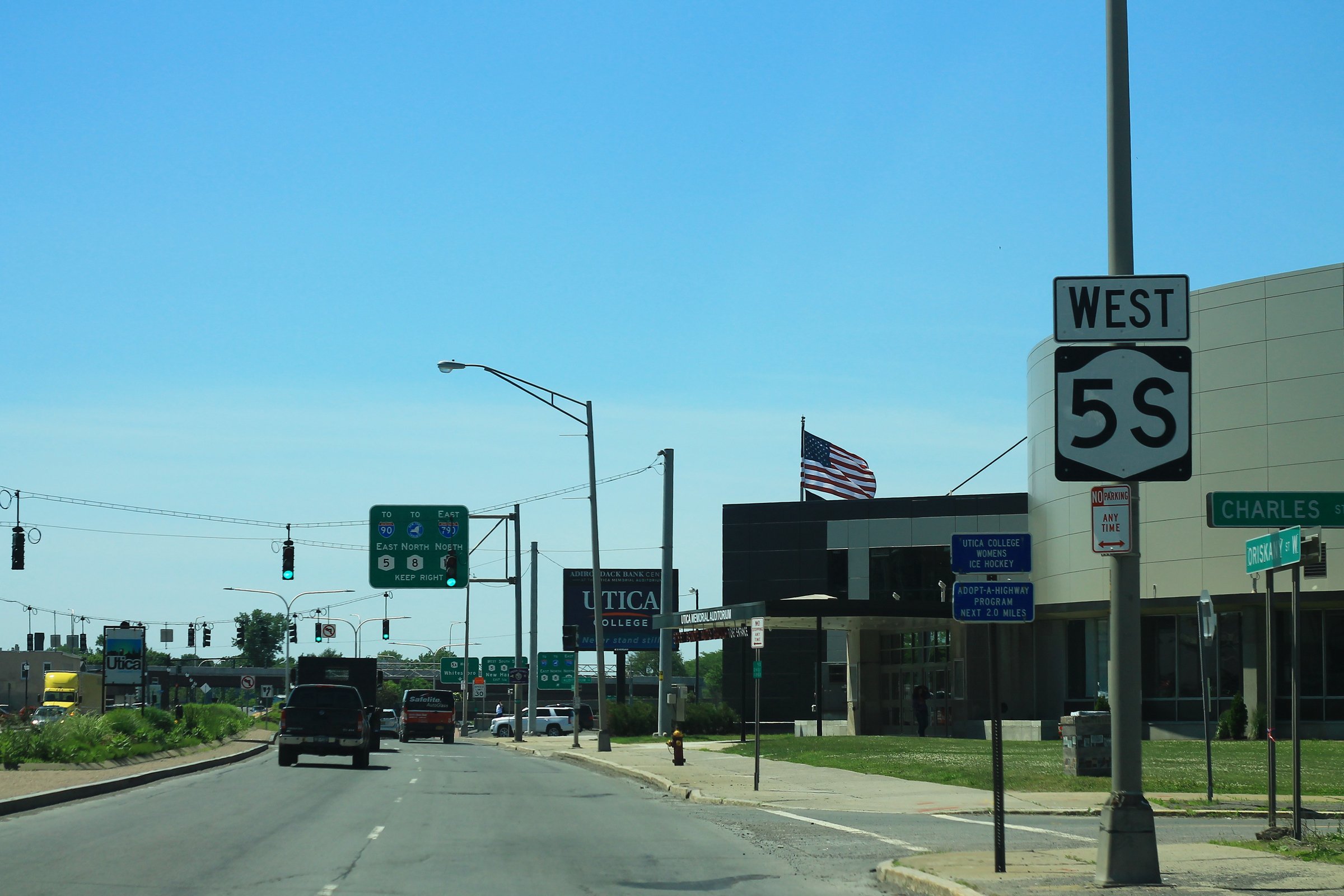 NY5S West Sign - Utica